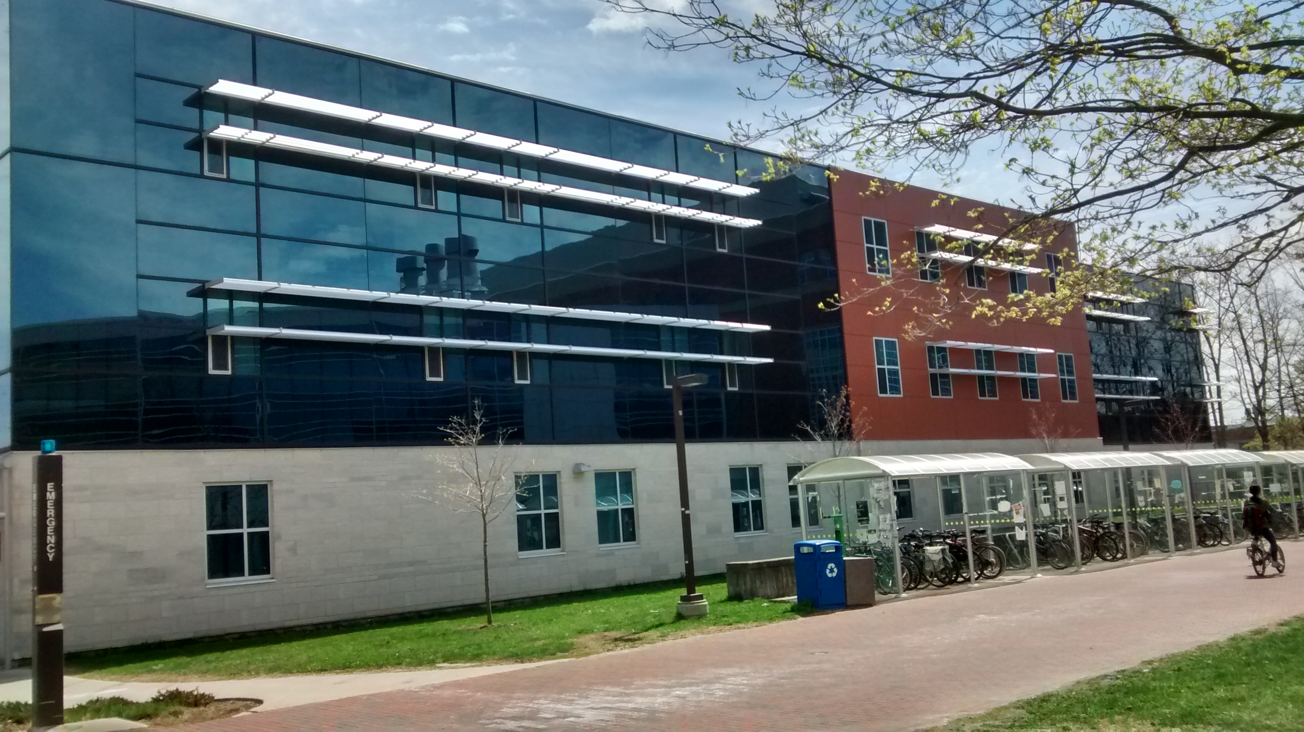 Alexander building (formerly Axelrod) for Environmental Sciences